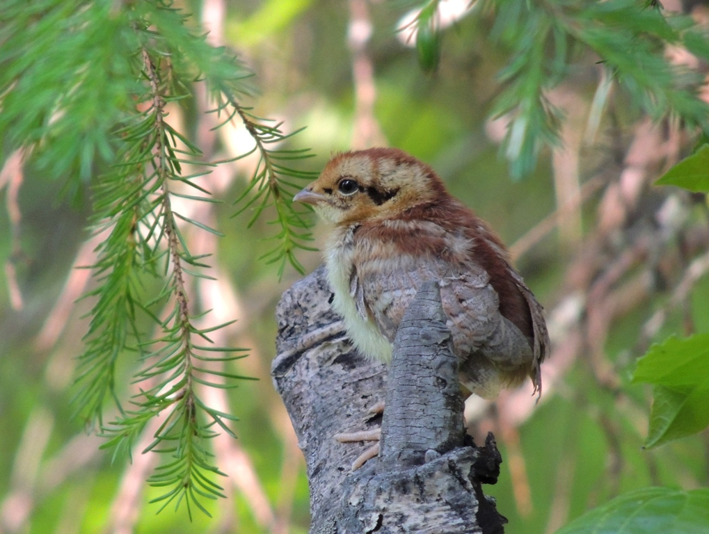 Сhick of the Hazel Grouse in the taiga, Khanty-Mansi Autonomous Okrug. Russia